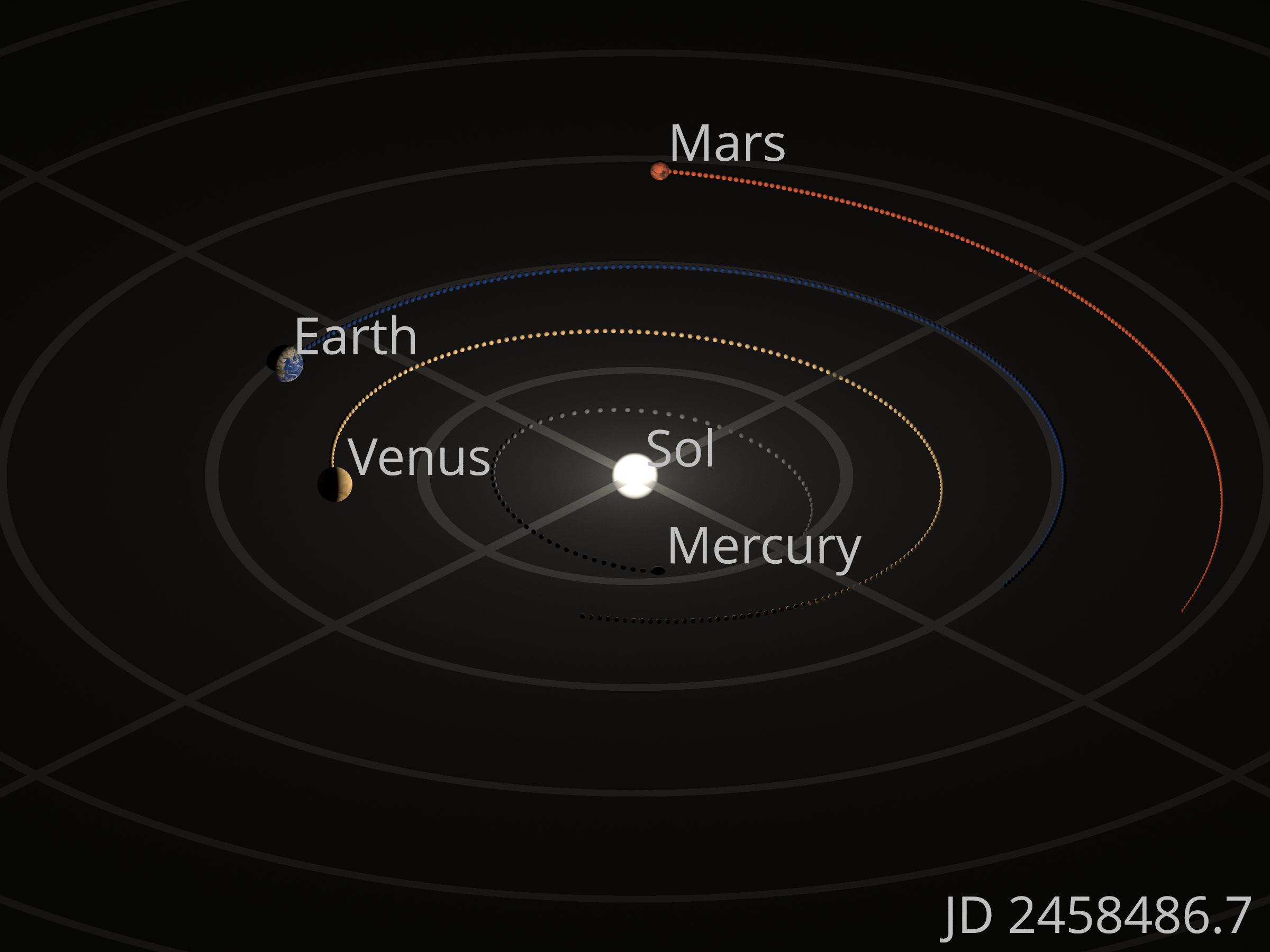 Orrery showing the motions of the inner four planets of our solar system starting on A.D. 2018 Jul 06, 16:47:00.0 (Earth aphelion) and ending on A.D. 2019 Jan 03, 05:20:00.0 (Earth perihelion). Each small sphere represents the distance traveled in one Julian day. Distances are to scale. Objects are not. The flat circular rings are spaced 0.5 AU apart.